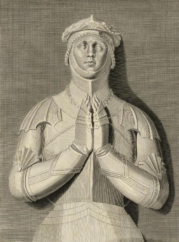 A portrait from the Welsh Portrait Collection at the National Library of Wales. Depicted person: William ap Thomas – Welsh noble